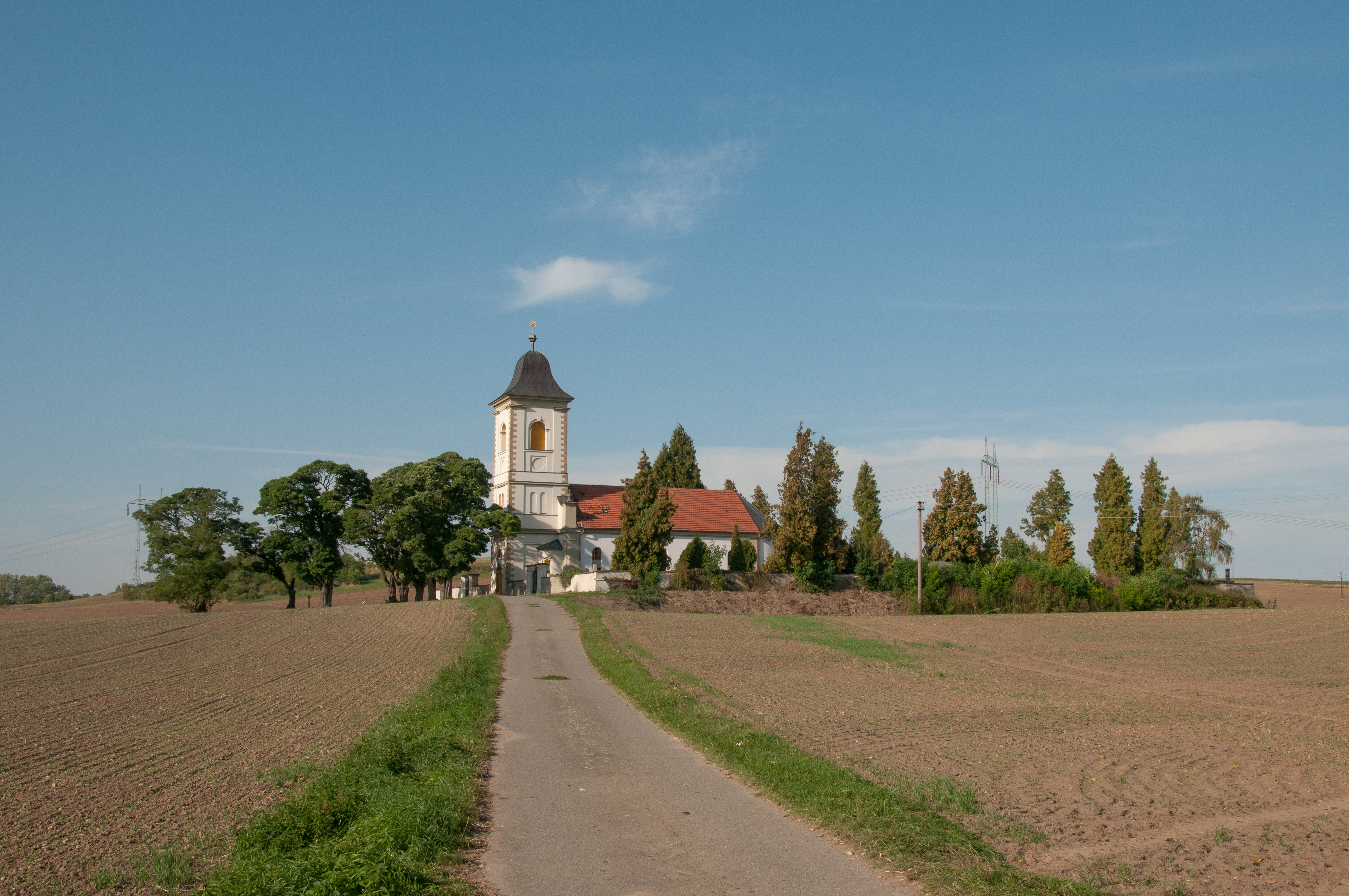 Protestant Church, Klášter nad Dědinou, Eastern Bohemia, Czech Republic, EU